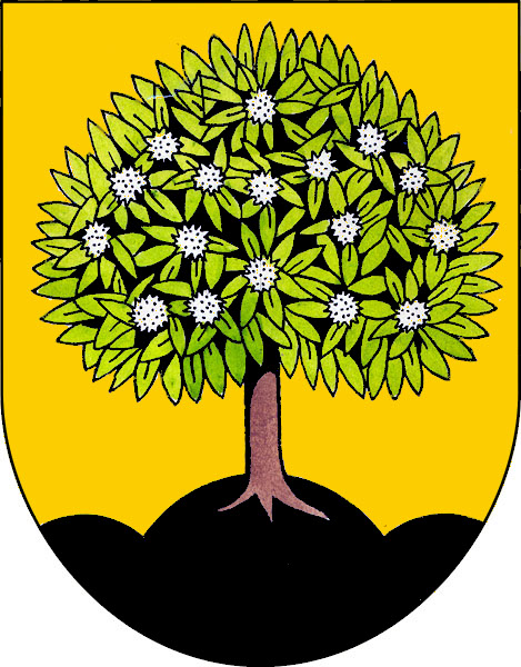 Municipal coat of arms of Nasavrky village, Chrudim District, Czech Republic.